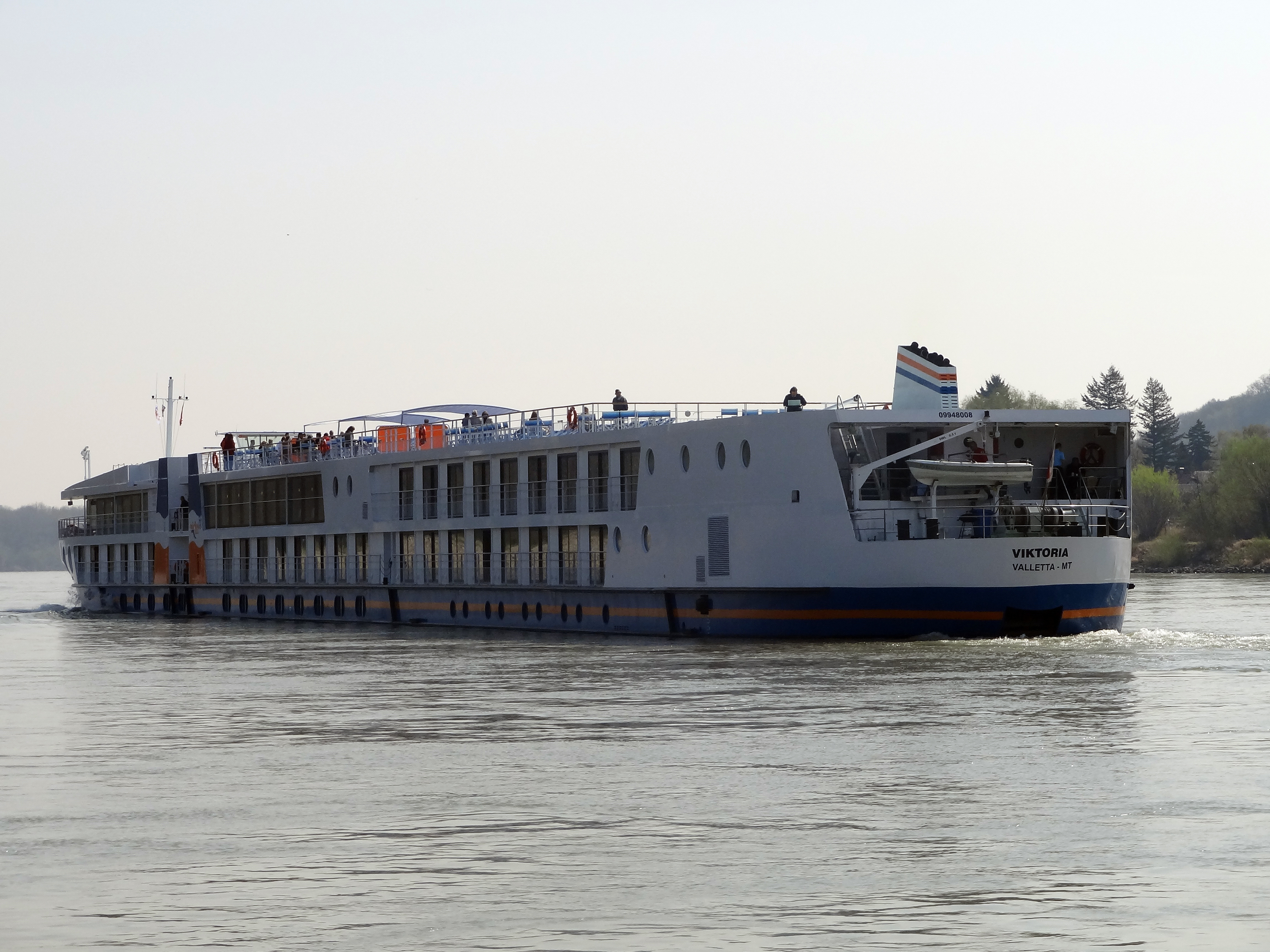 River cruise ship Viktoria in Greifenstein, Danube.